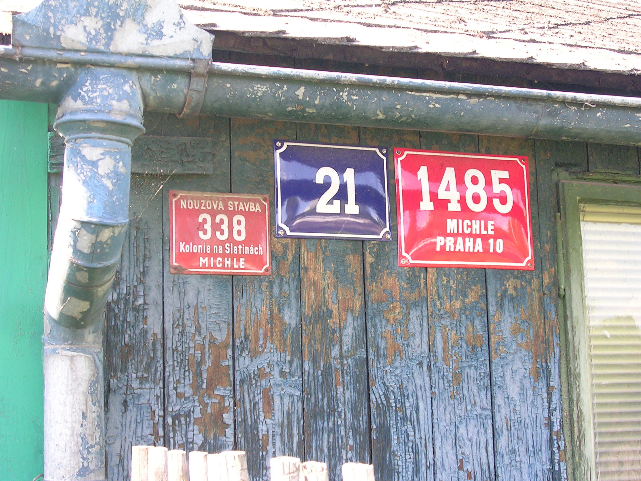 Michle, Prague, the Czech Republic.